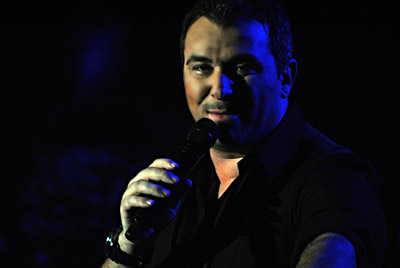 Greek singer Antonis Remos performing at Diogenis Studio in Athens, Greece on January 2, 2011